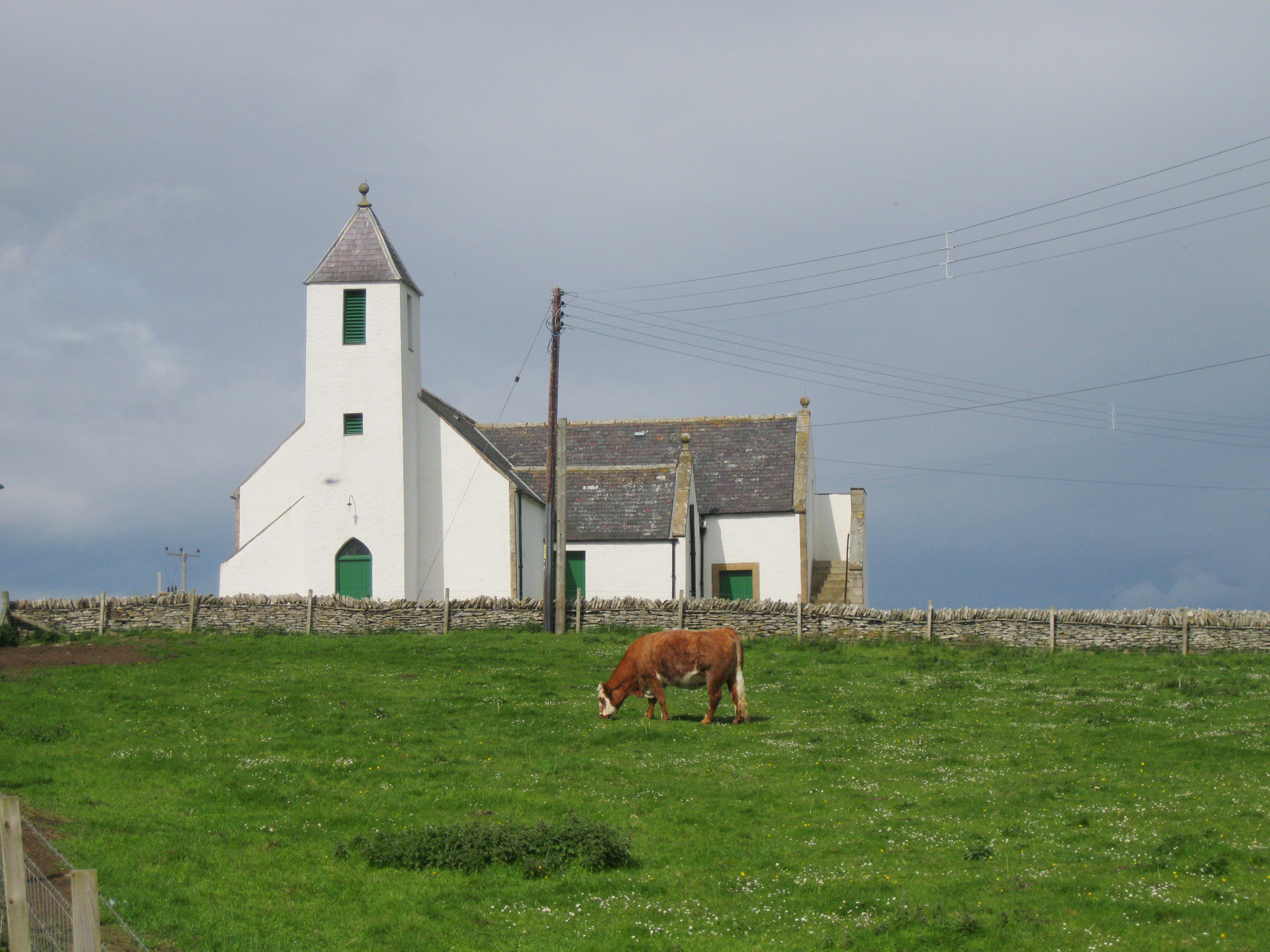 Reay Parish Church. The church was built in 1739 and is now an Category A listed building. Near to Reay, Highland, Great Britain.